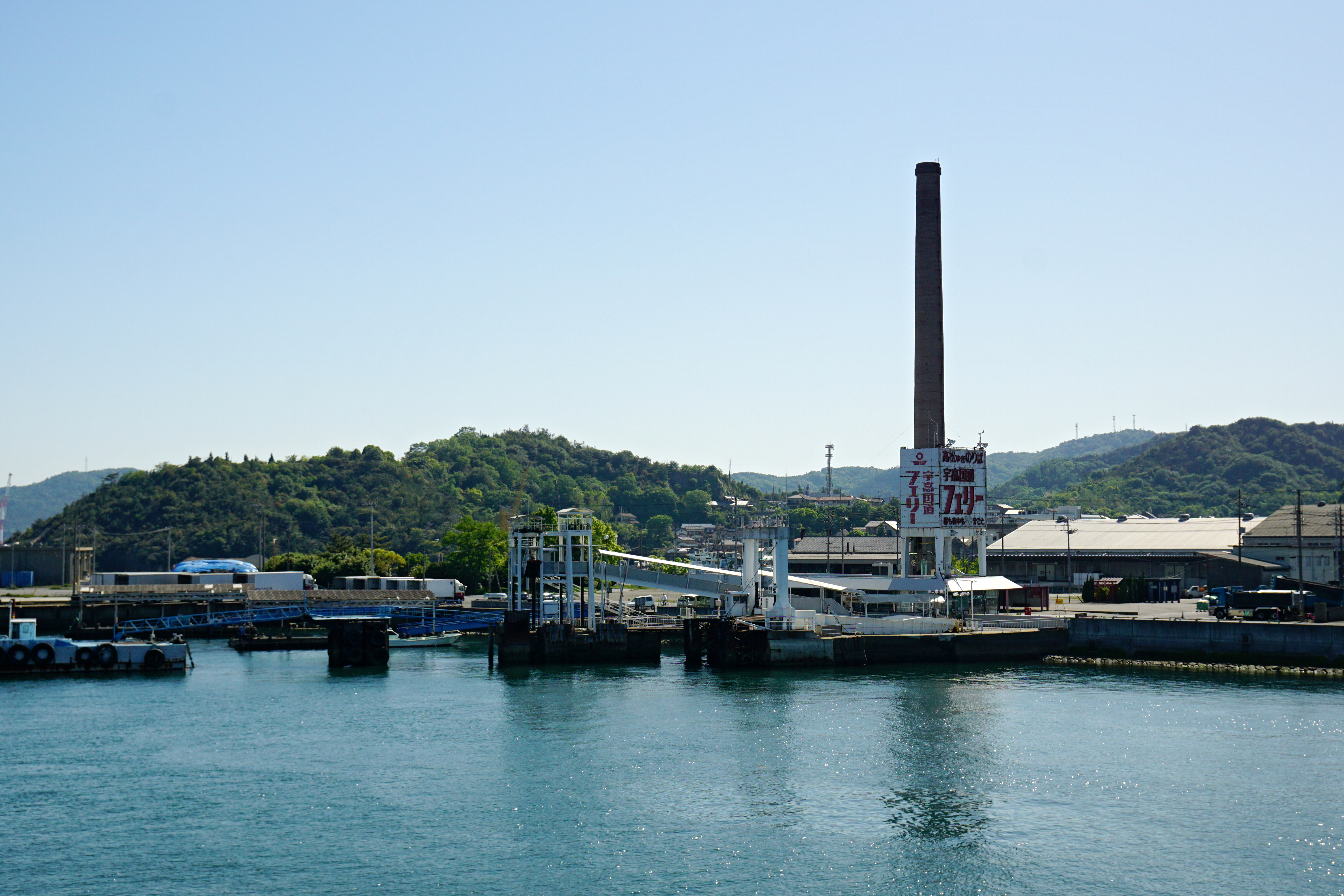 Port of Uno in Tamano, Okayama prefecture, Japan.